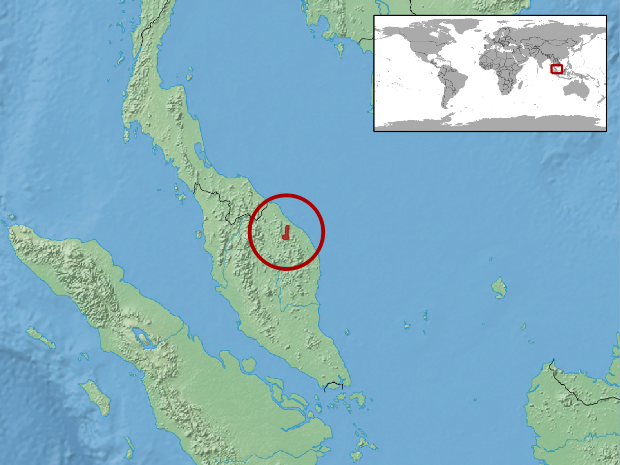 geographic distribution of Cnemaspis argus (Native: Malaysia)